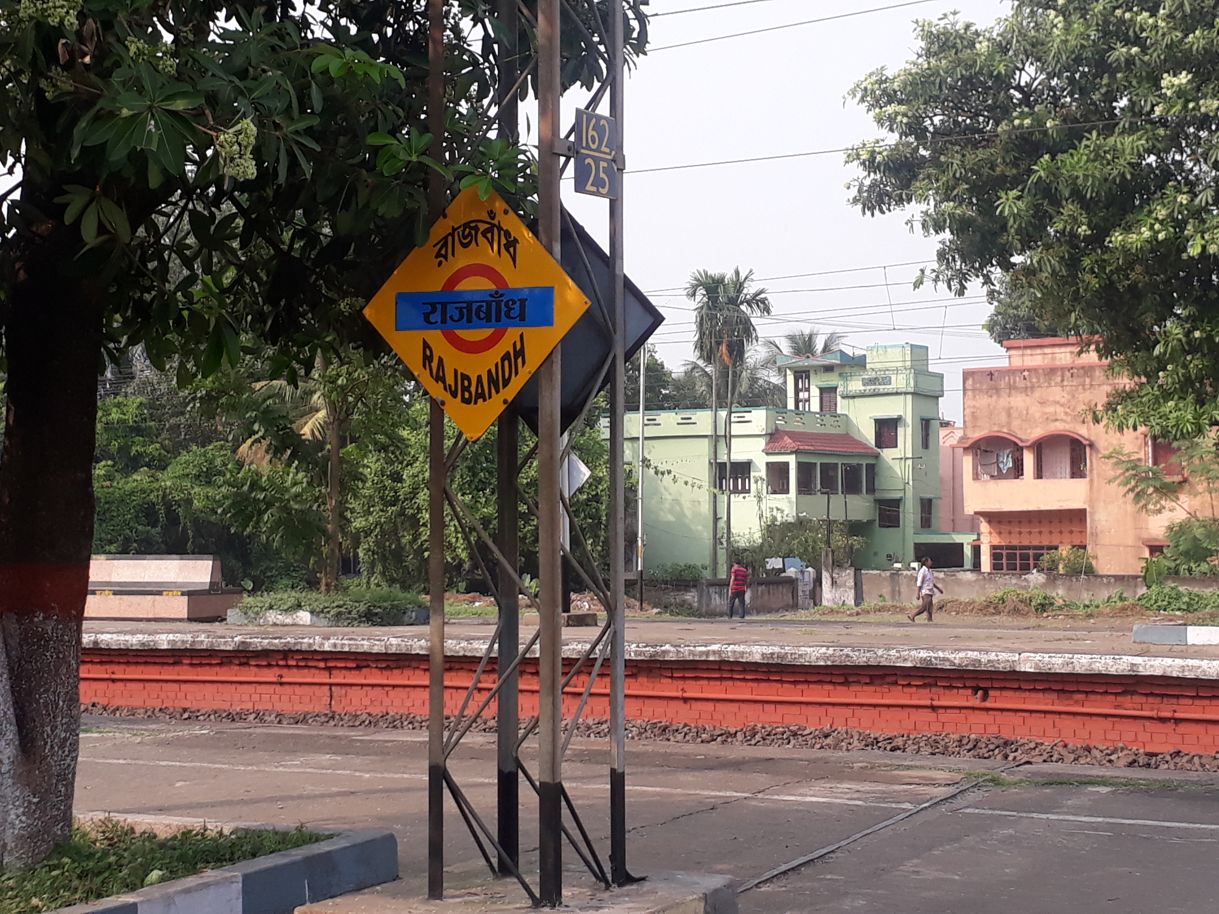 Railway stations and platforms in West Bengal, Indian Railways.